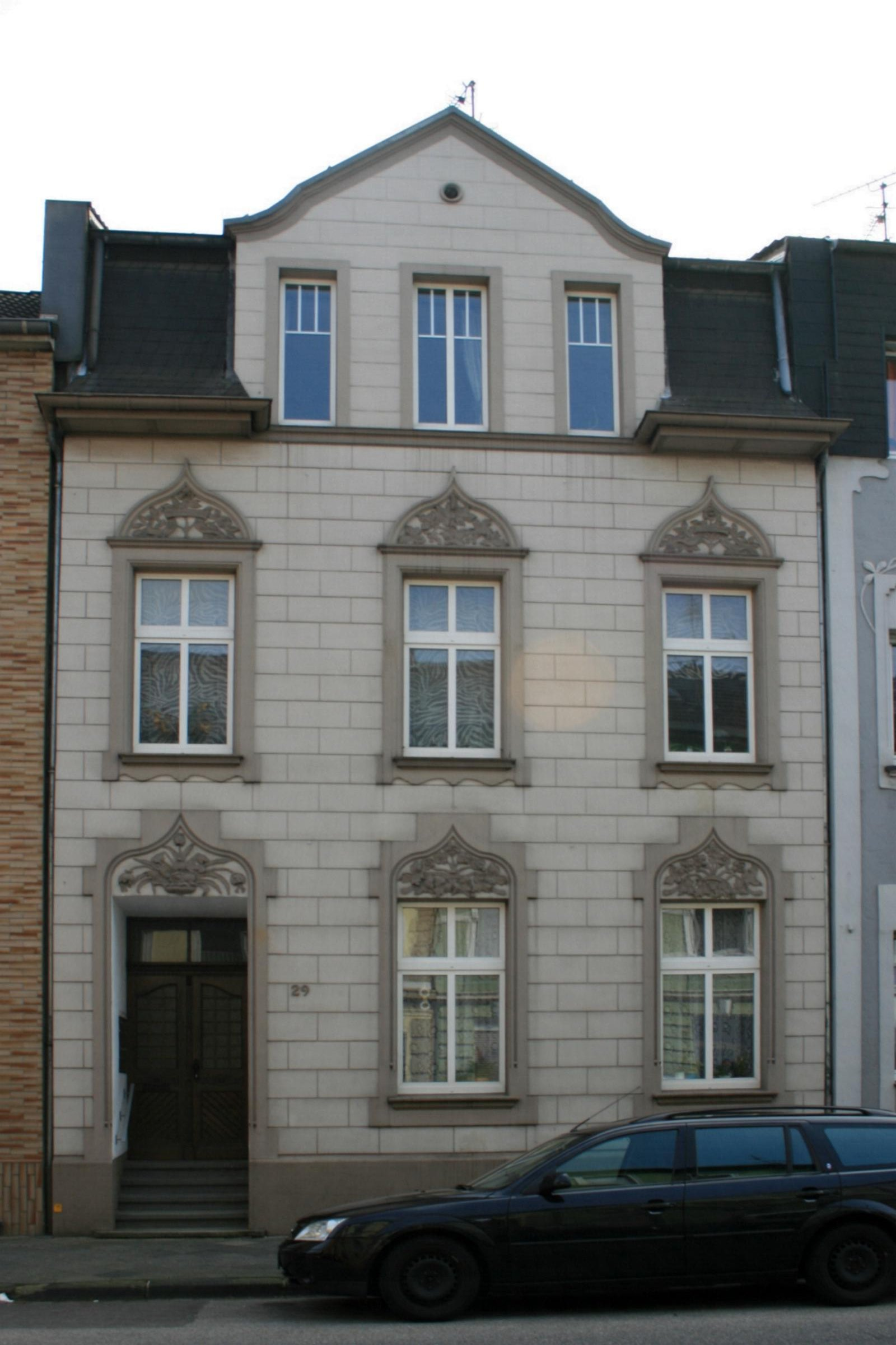 Cultural heritage monument No. L 005 in Mönchengladbach